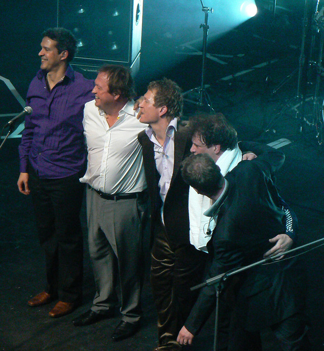 Pop group Level 42 live at the Indigo, O2, London, June 2009